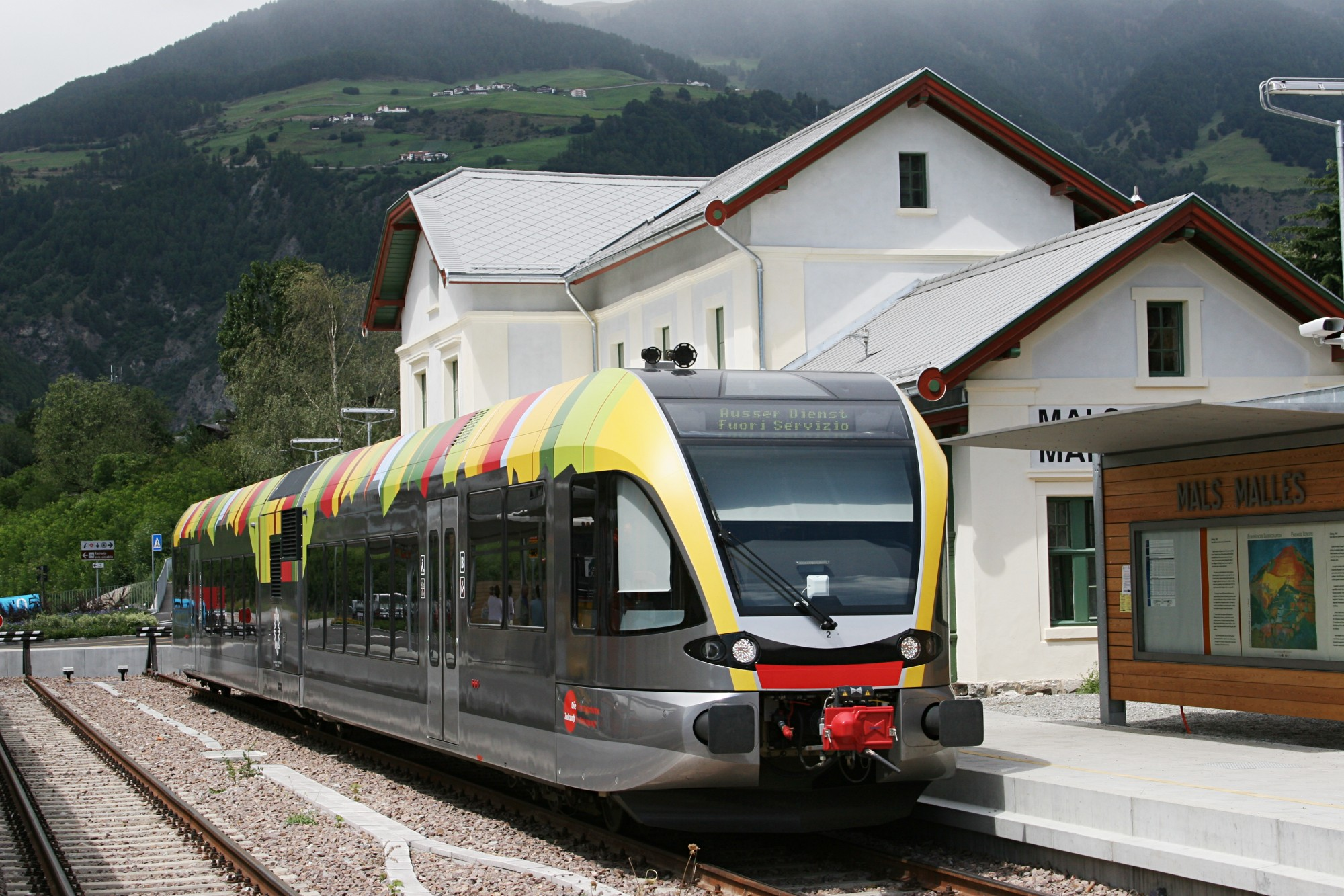 Stadler GTW 2/6 of the Vinschgaubahn in Mals station.